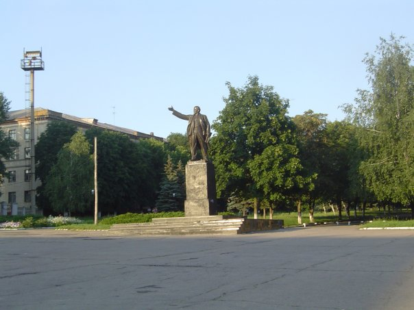 Statue of Lenin in Amvrosiivka, Donetsk Oblast, Ukraine